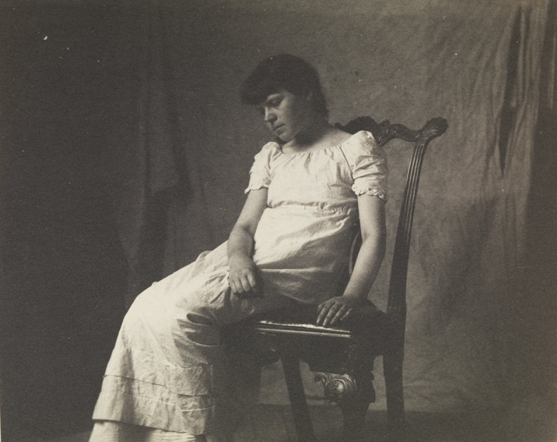 Lettie Willoughby sitting in Chippendale chair Artist: Thomas Eakins (1844-1916) Date: 1885 Medium: Platinum print Dimensions: 3 1/2 x 4 5/16 in. (8.89 x 10.95502 cm.) Accession #: 1985.68.2.261 Credit Line: Charles Bregler's Thomas Eakins Collection, purchased with the partial support of the Pew Memorial Trust